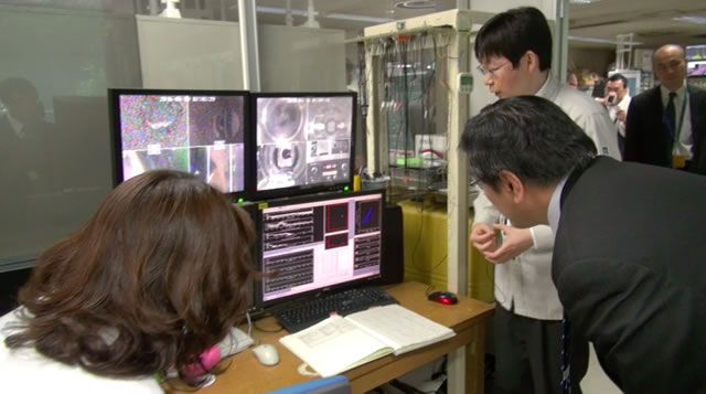 Kōji Morimoto, Leader of the Superheavy Element Device Development Team, Research Group for Superheavy Element, Nishina Center for Accelerator-Based Science, Riken, explained to Hiroshi Hase, Minister of Education, Culture, Sports, Science and Technology, and Mayuko Toyota, Parliamentary Secretary for Education, Culture, Sports, Science and Technology, the Nihonium at Nishina Center for Accelerator-Based Science, Riken in Wakō City, Saitama Prefecture on June 9, 2016.